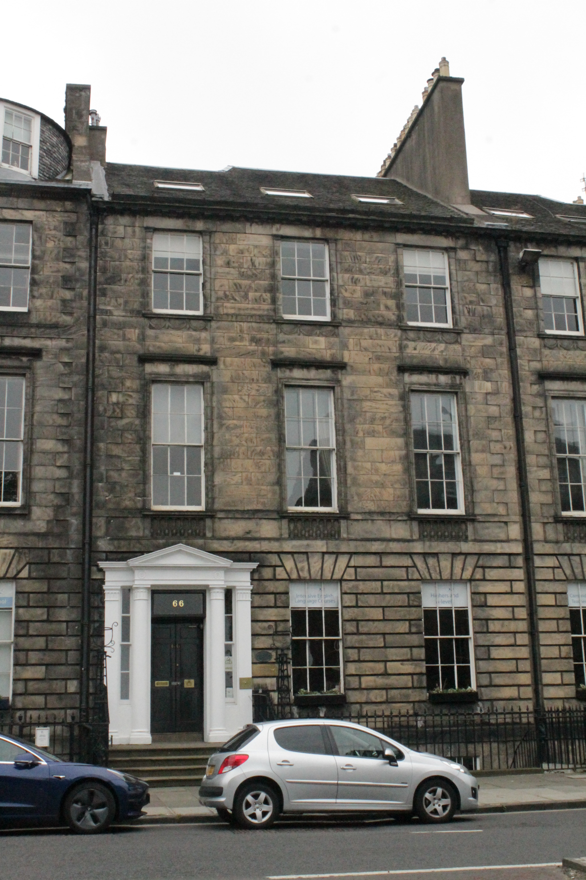 66 Queen Street, Edinburgh